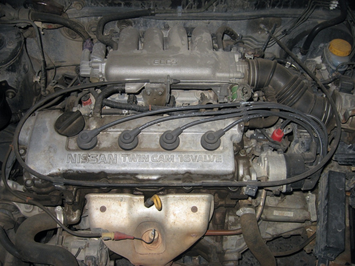 Engine Nissan Tsuru GA16DE